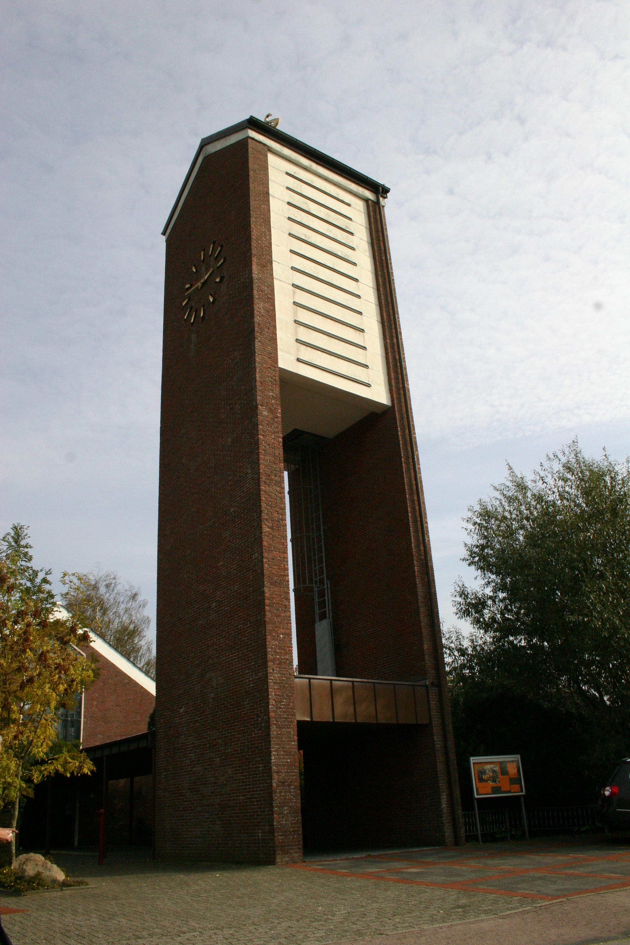 John Church in Rechtsupweg, East Frisia, Germany